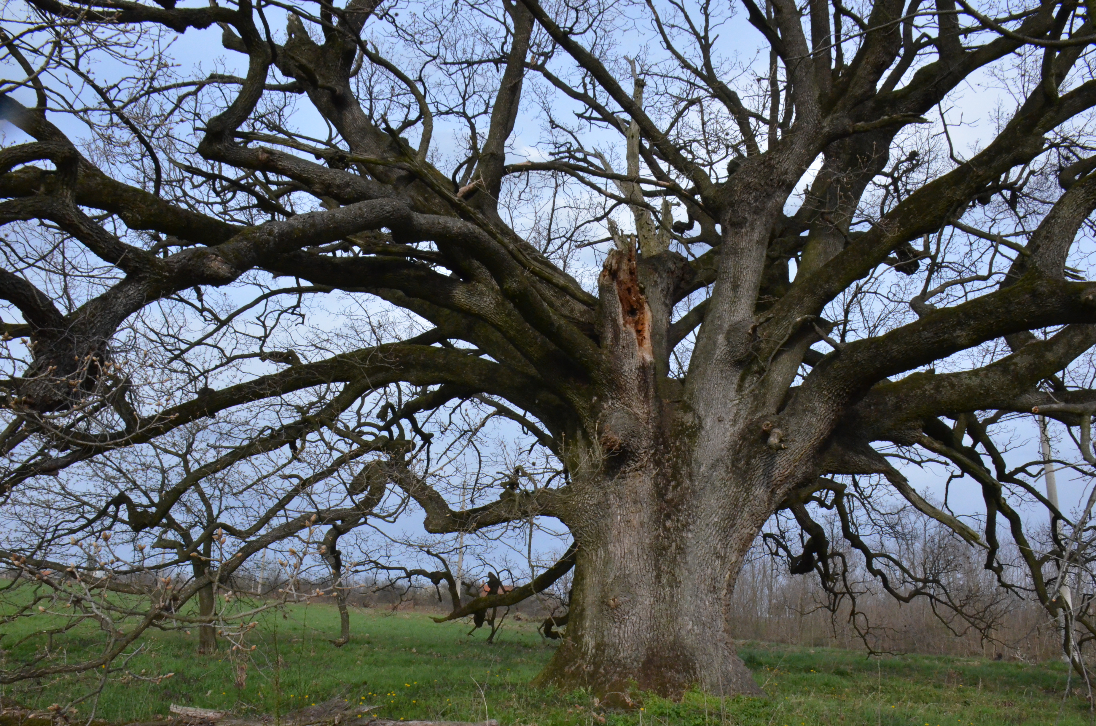 Ово је фотографија заштићеног природног добра у Србији под шифром: СП231This is a a photo of a natural area in Serbia with ID: СП231 Zapis - Sacred Tree, Natural Monument, Оак in village Tulež, municipality Aranđelovac, Serbia